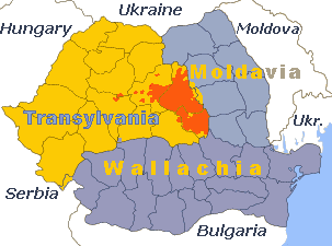 Map of the Székelyföld (orange) in Transylvania (yellow), in Romania